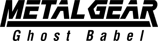 Logo from the Konami's Metal Gear: Ghost Babel videogame